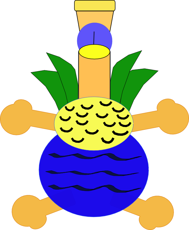 Glyph that represents the town of Los Reyes Acaquilpan and the municipality of La Paz.